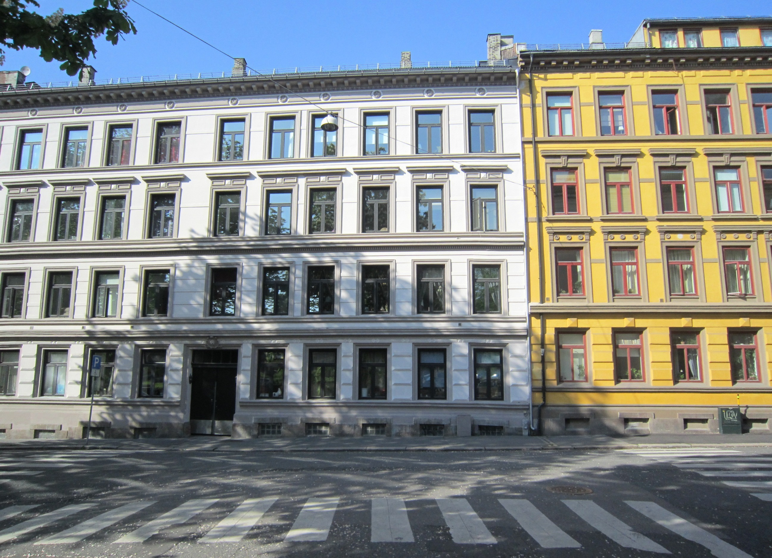 Buildings/apartment blocks from 1892 in Arups gate, Gamlebyen in Oslo, Norway. Number 14 to the left, number 16 right. Architect for both Anselm Liljestrøm.